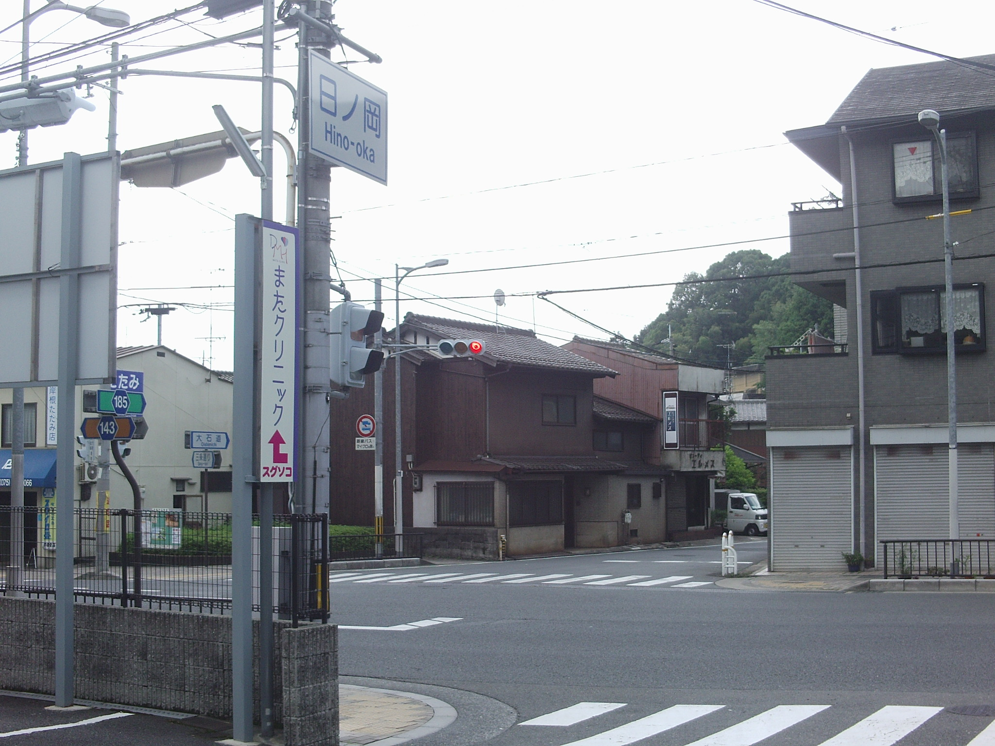 Kyoto municipal road No.185 in Hinooka Kamodocho, Yamashina-ku, Kyoto city, Kyoto.